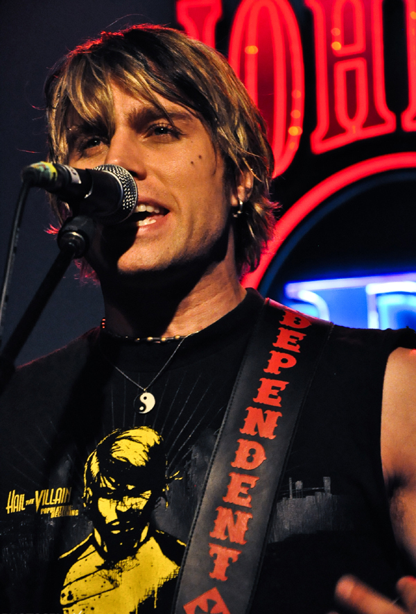 Matt Walst, lead singer of My Darkest Days, at Johnny B Nightclub in Whitby, Ontario, Canada the evening of August 22, 2009